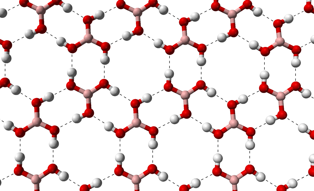 Ball-and-stick model of B(OH)3 molecules in a layer of crystalline boric acid